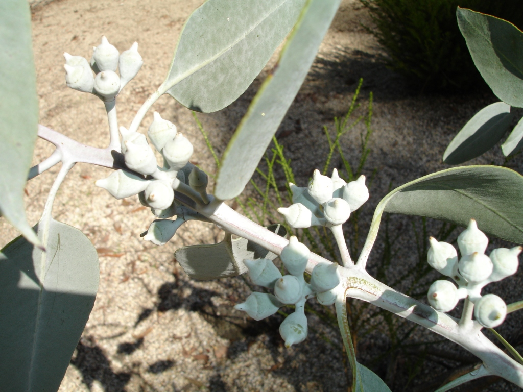 Photographed at Maranoa Gardens, Melbourne, Victoria, Australia by HelloMojo 09:08, 6 April 2007 (UTC)